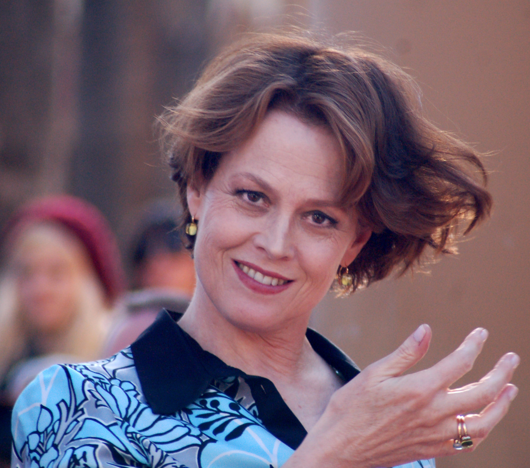 Sigourney Weaver at a ceremony for James Cameron to receive a star on the Hollywood Walk of Fame.